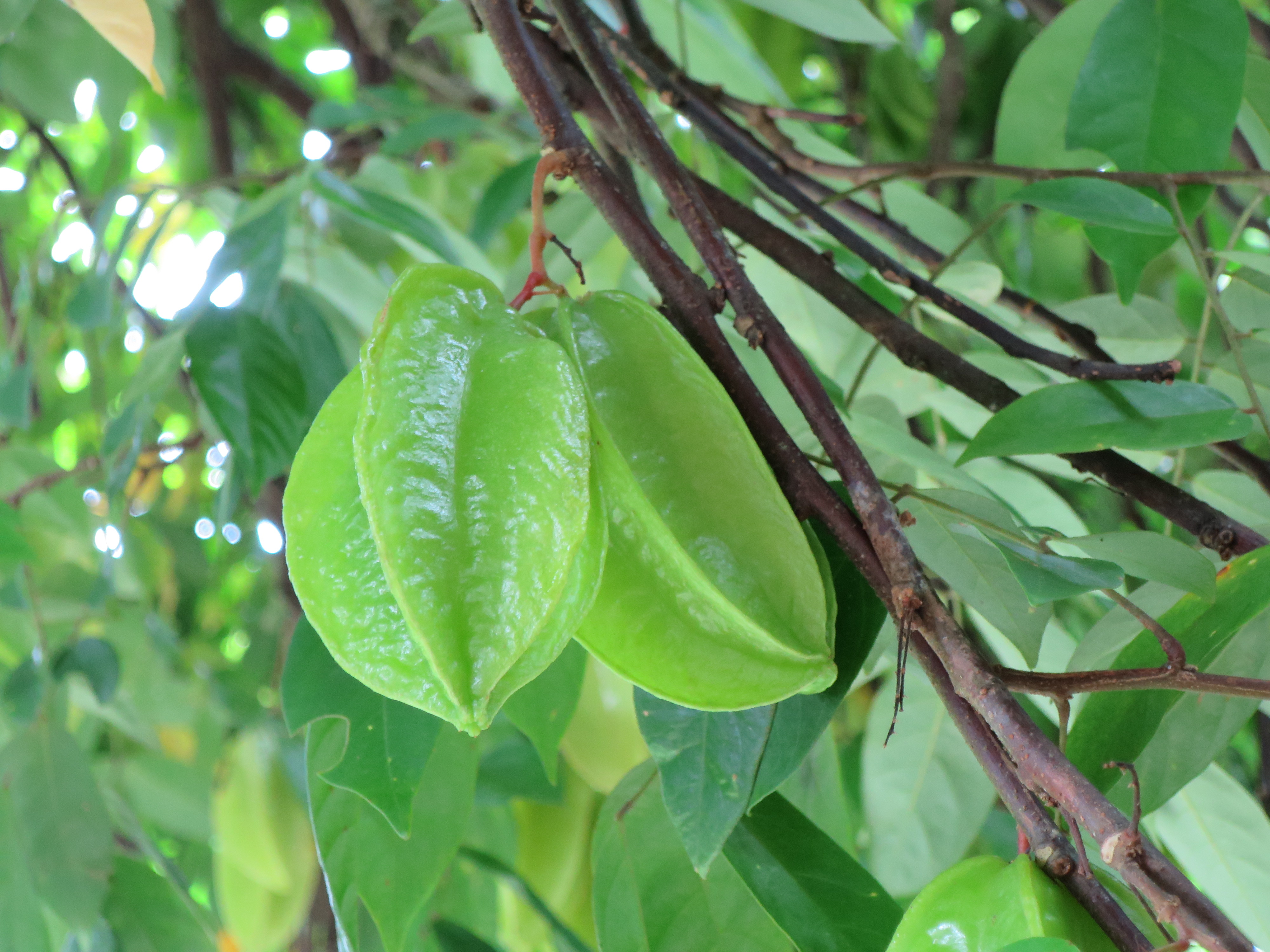 A photograph of starfruit which, once ripe, often graced the breakfast table at Freshwinds Guesthouse.